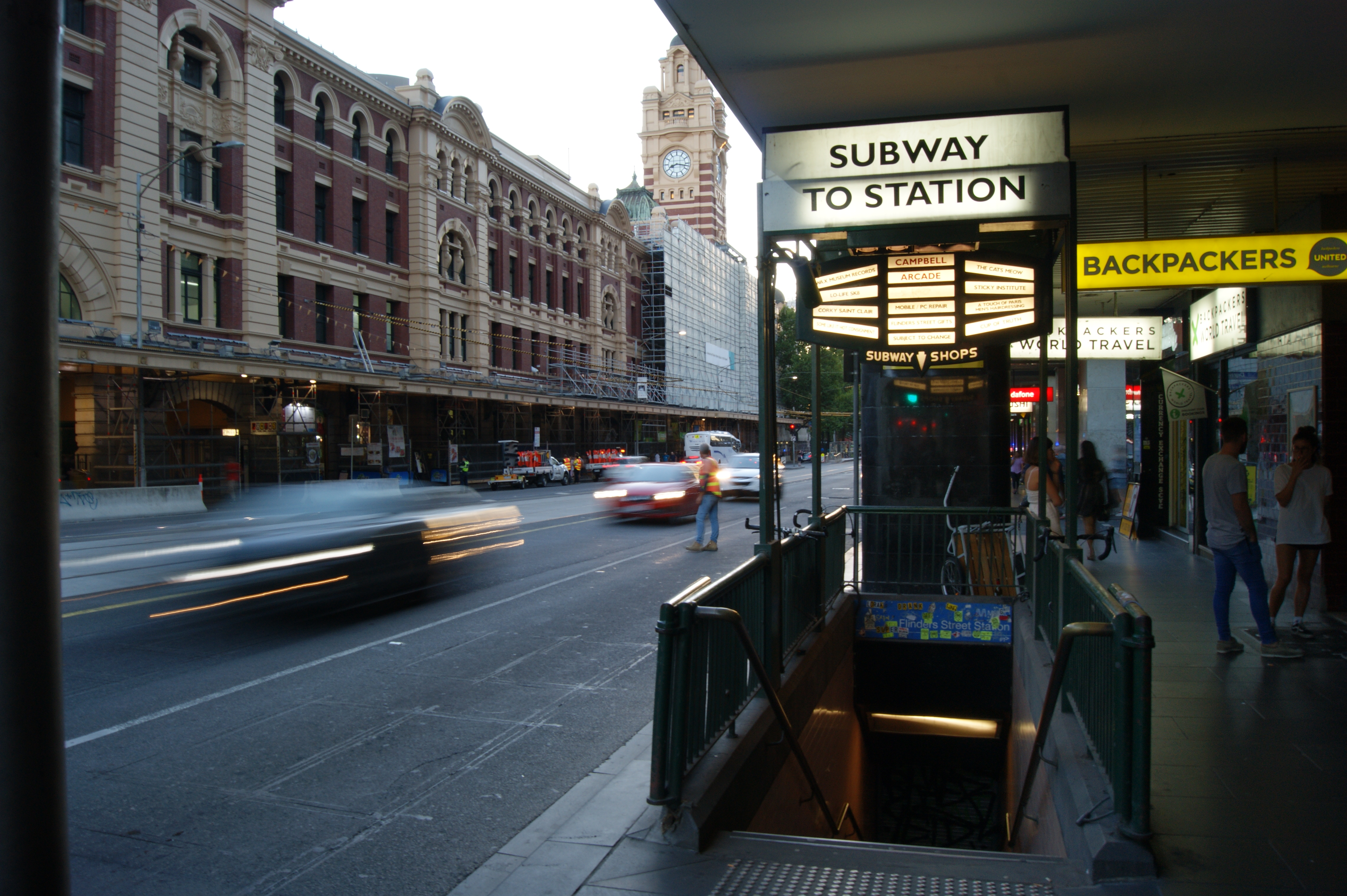 Subway to Campbell Arcade underpass viewed from Flinders Street